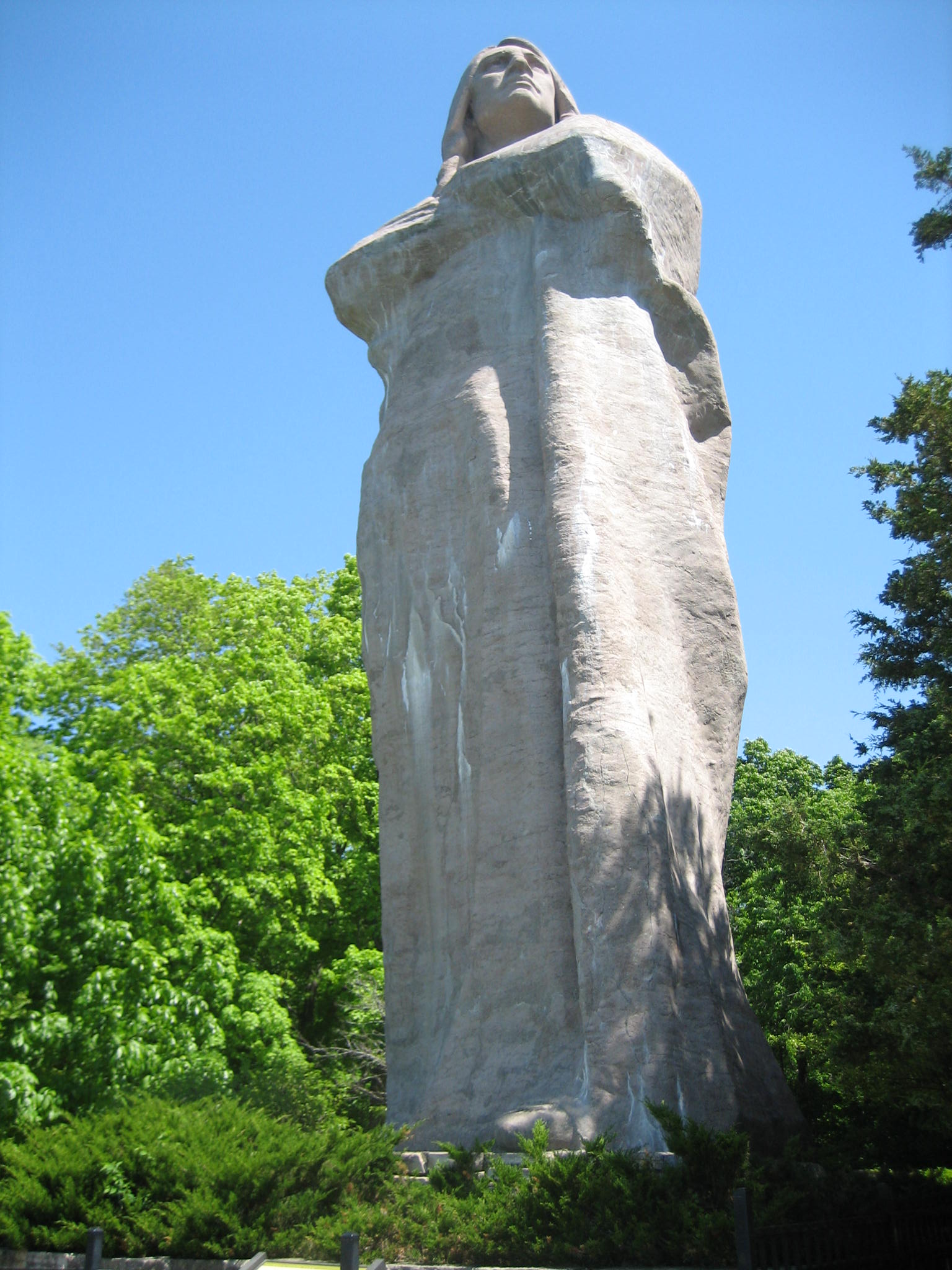 Lowden State Park, near Oregon, Illinois, USA. Lorado Taft's Black Hawk Statue.